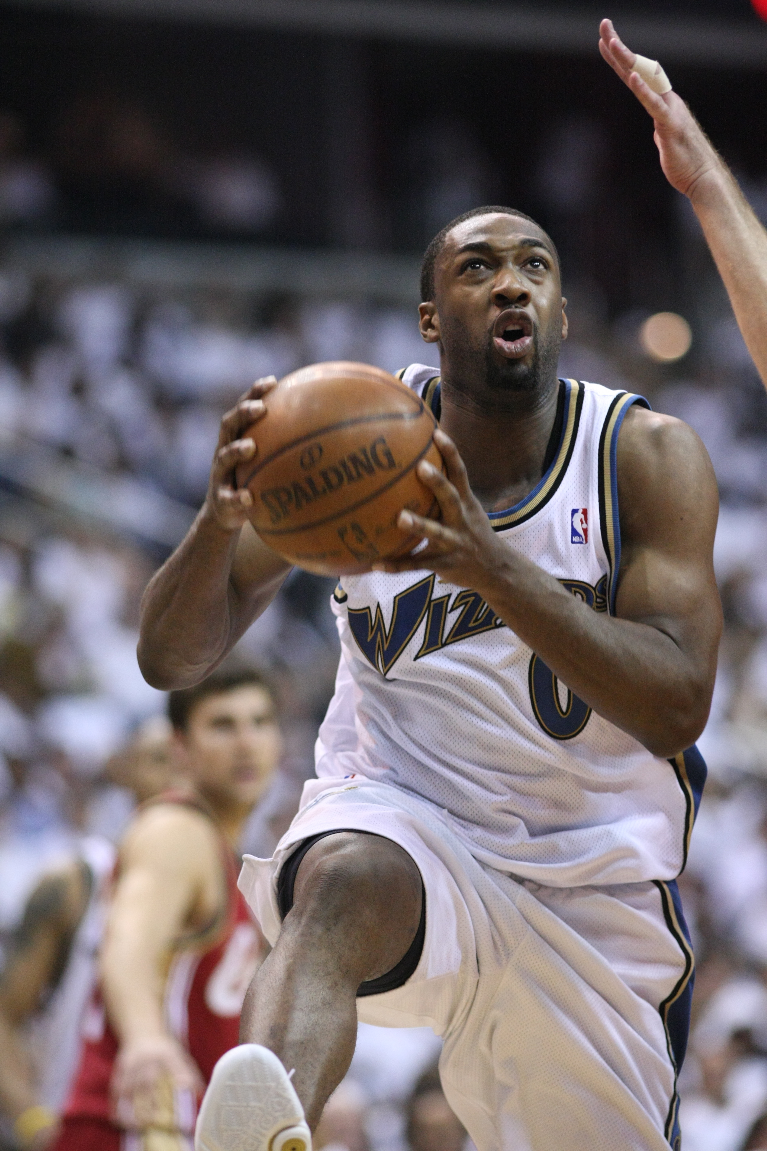 Gilbert Arenas playing with the Washington Wizards